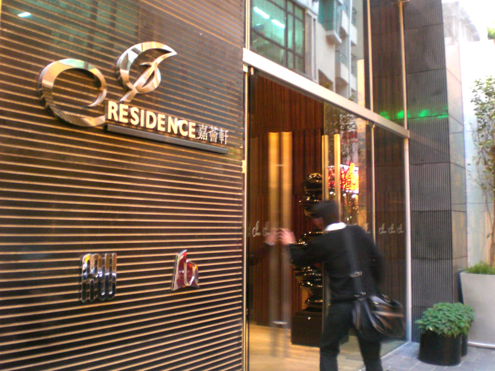 嘉薈軒, 灣仔'船街, Ship Street, Wan Chai, Hong Kong